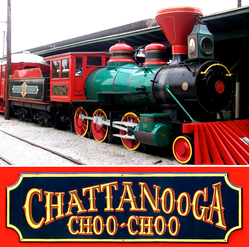 Chattanooga Choo Choo